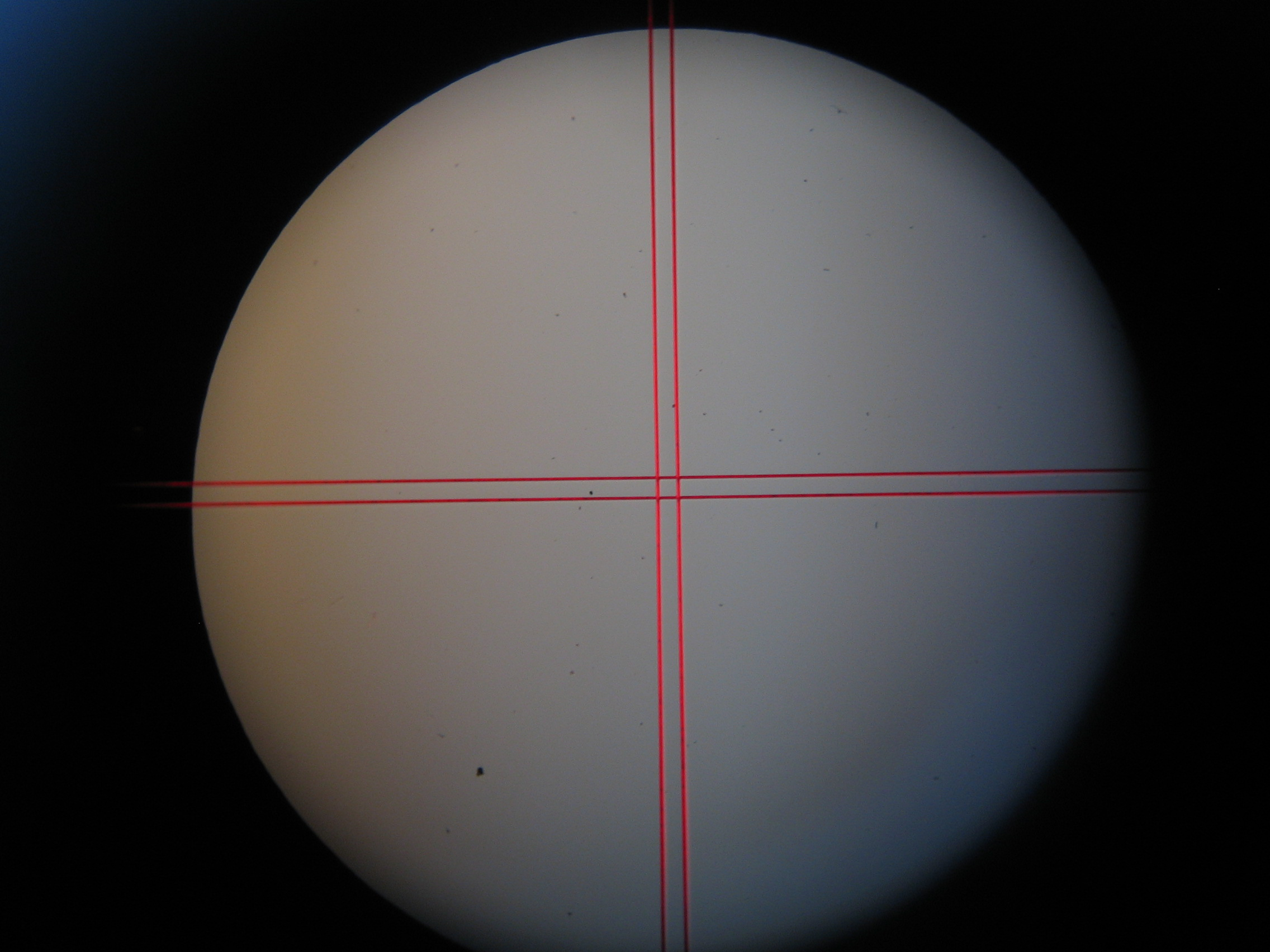 Double Crosshair in an eyepiece lens, lighted